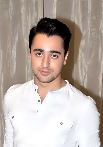 Imran Khan promoting Matru Ki Bijlee Ka Mandola in December 2012.